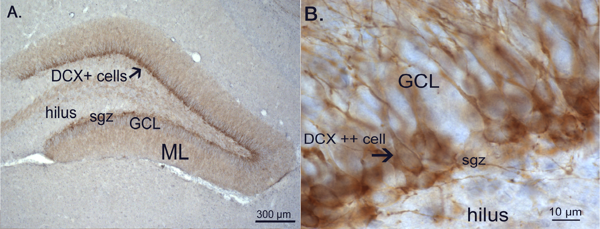 Figure 6. Doublecortin (DCX) -positive neurons. A. Photo of the dentate gyrus of a 21 day old CONS male showing extensive immunostaining of DCX in the subgranular zone (sgz) and the first third of the granular cell layer (GCL) with dendrites extending through the granular cell layer (GCL) into the molecular layer (ML). B. High power photomicrograph showing details of the DCX+ cell bodies located in the SGZ and GCL, with extending dendrites in the